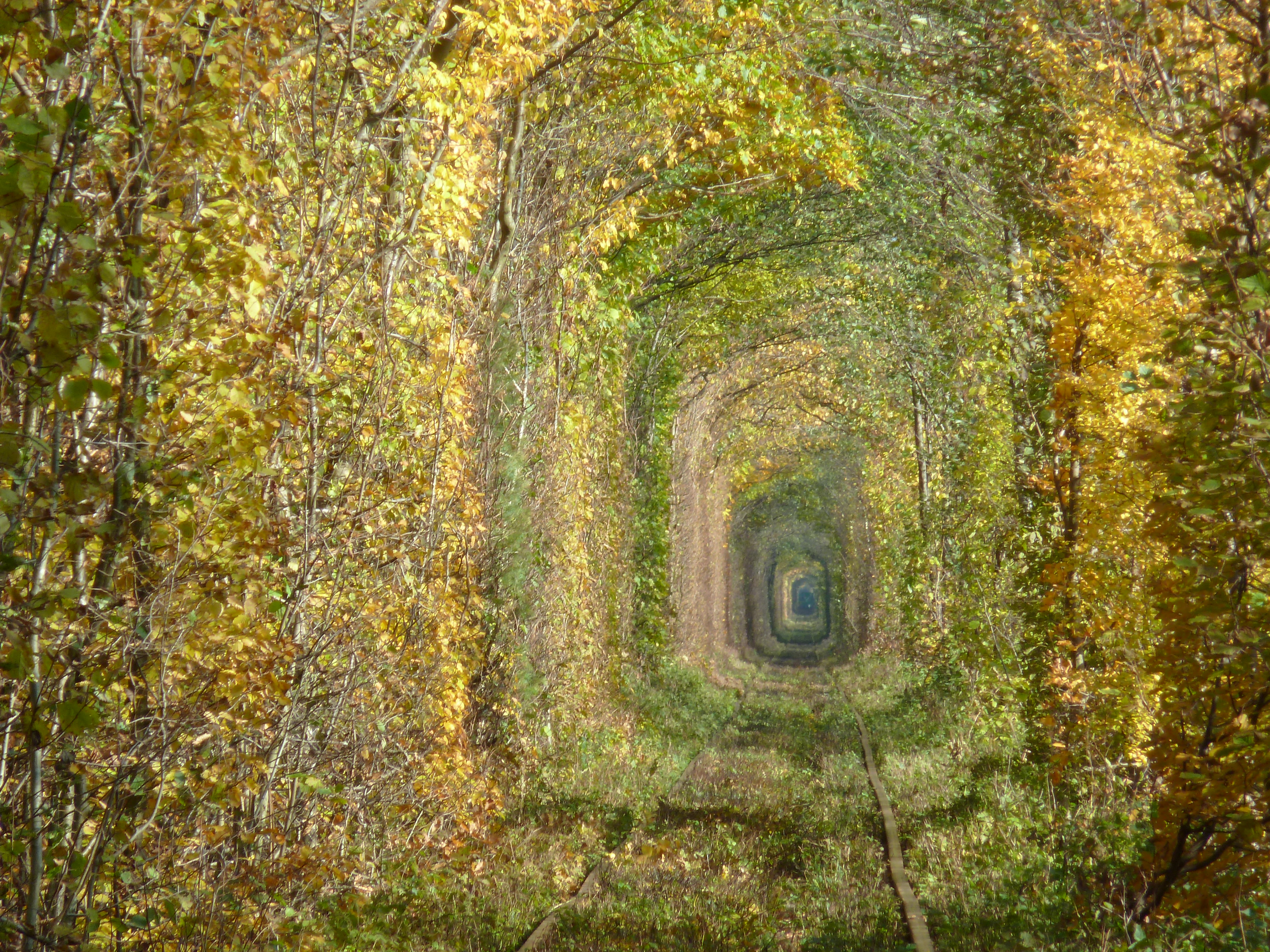 The Tunnel of Love, near Klevan, Rivnenskyi raion